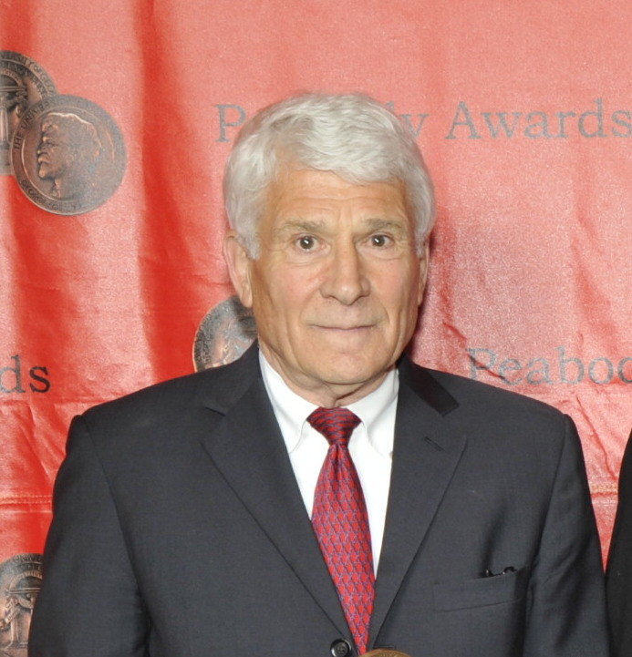 PHOTO CREDIT: ANDERS KRUSBERG / PEABODY AWARDS Antony Thomas, 70th Annual Peabody Awards Luncheon Waldorf=Astoria Hotel May 23, 2011